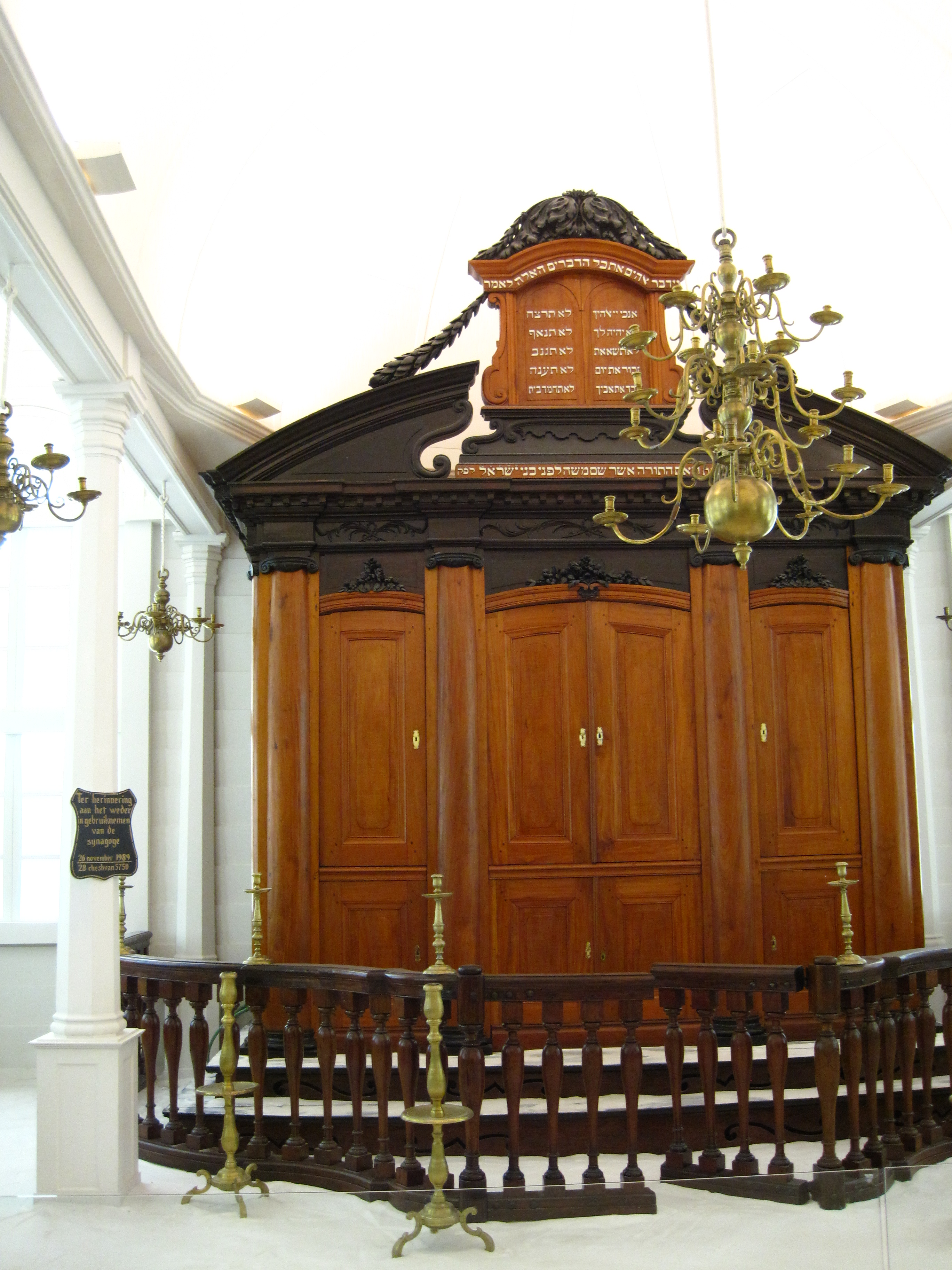 Suriname Synagogue. The Tzedek ve-Shalom Synagogue